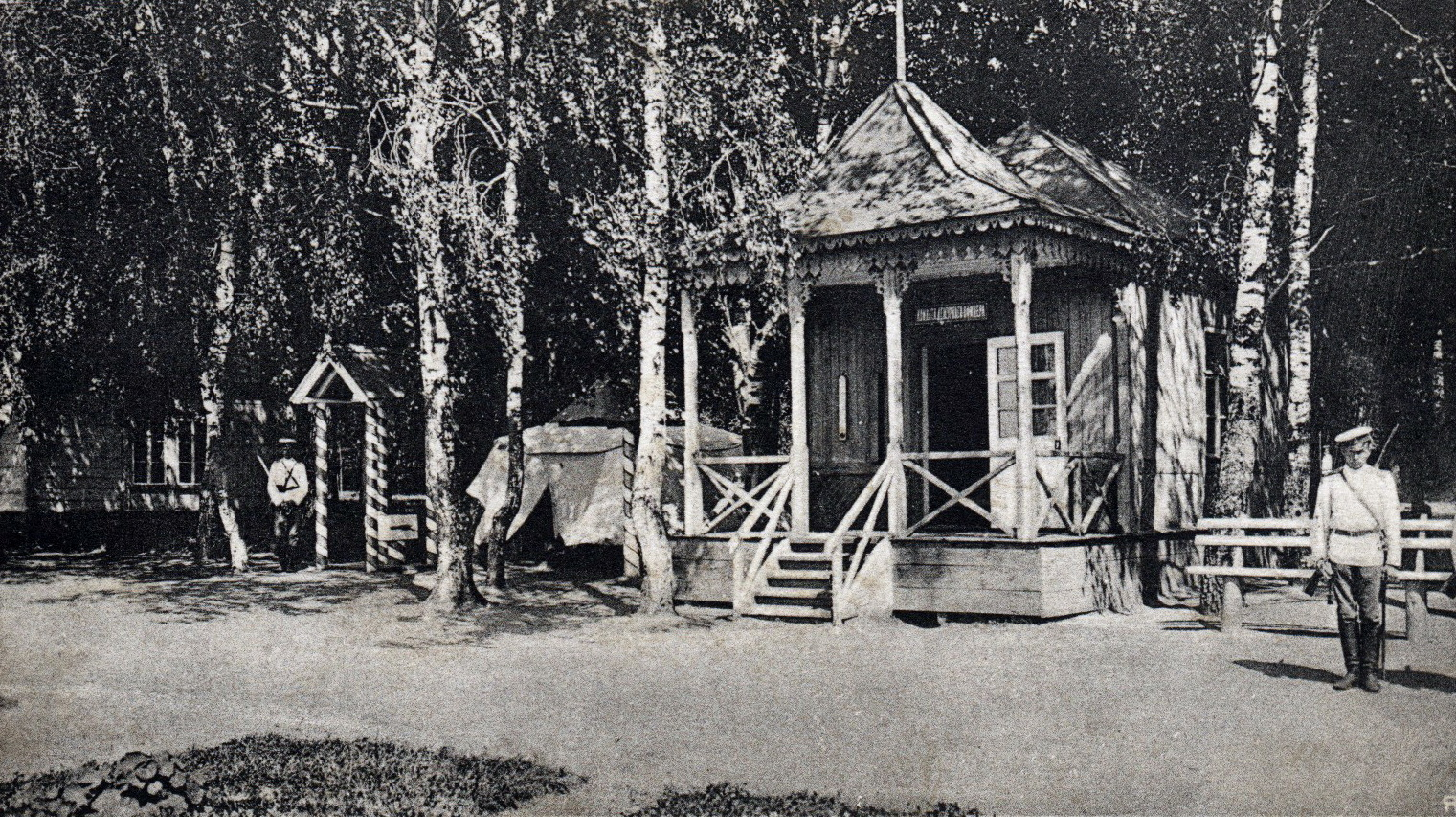 The Tver cavalry school